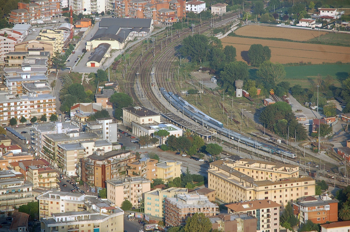 Cassino 2010